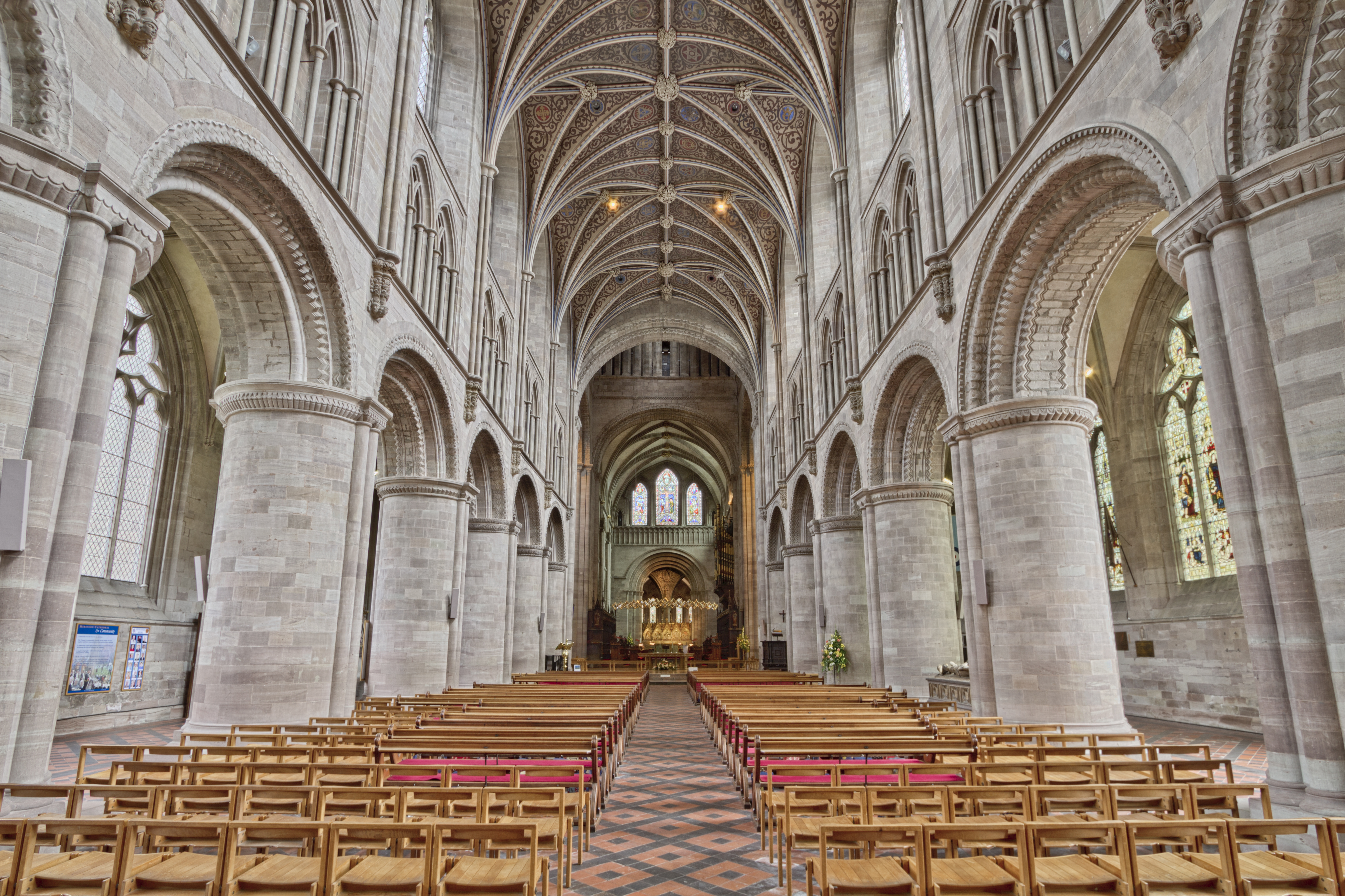 Here is an hrd photograph taken from inside Hereford Cathedral. Located in Hereford, Herefordshire, England, UK.